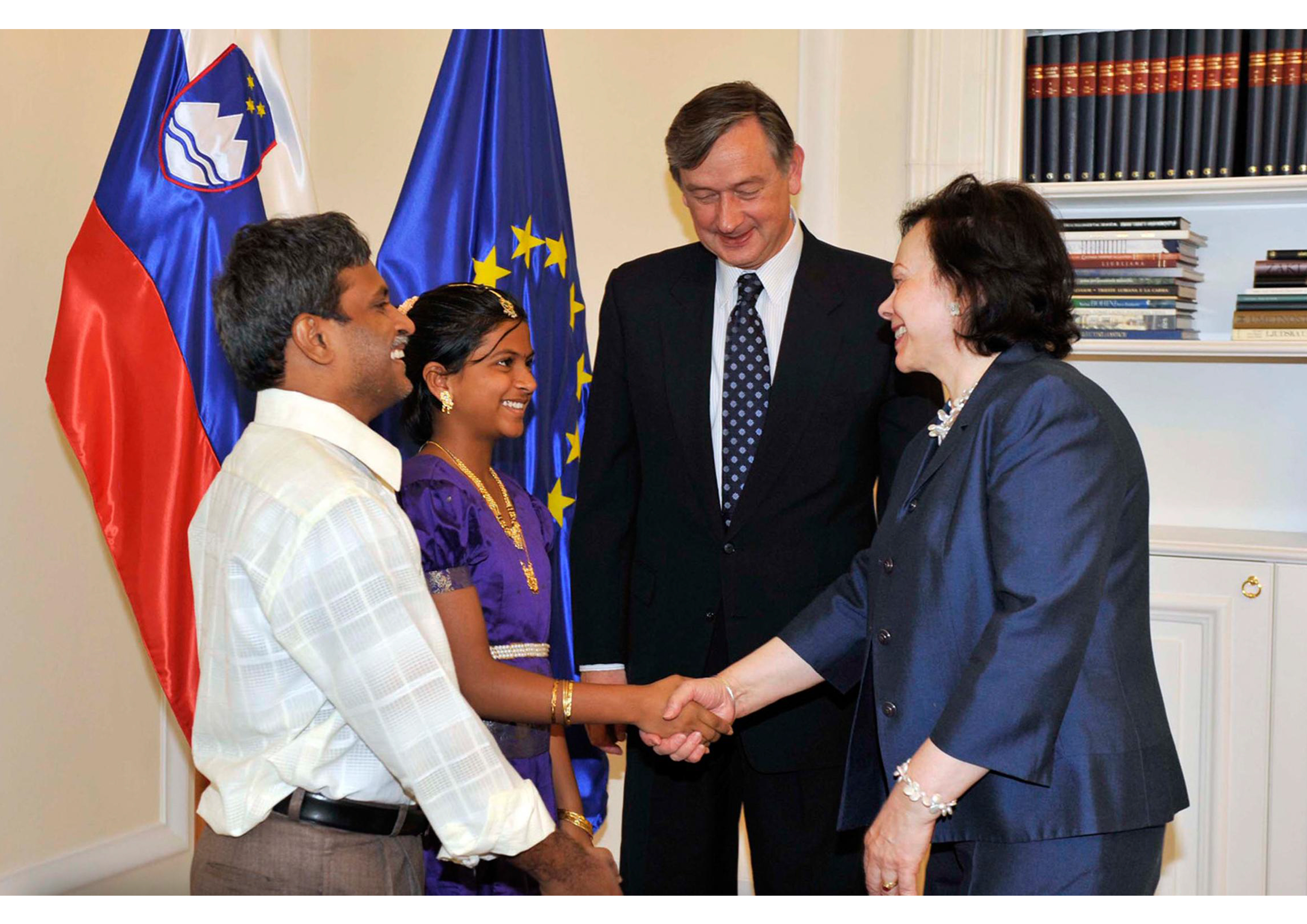 Lakshmi with president of Slovenia - Dr. Danilo Turk and First Lady Mrs. Barbara Turk on 18-05-2009 in Slovenia